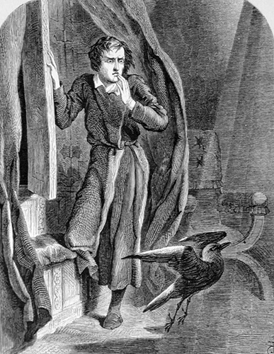 John Tenniel illustration for Edgar Allan Poe's "The Raven."